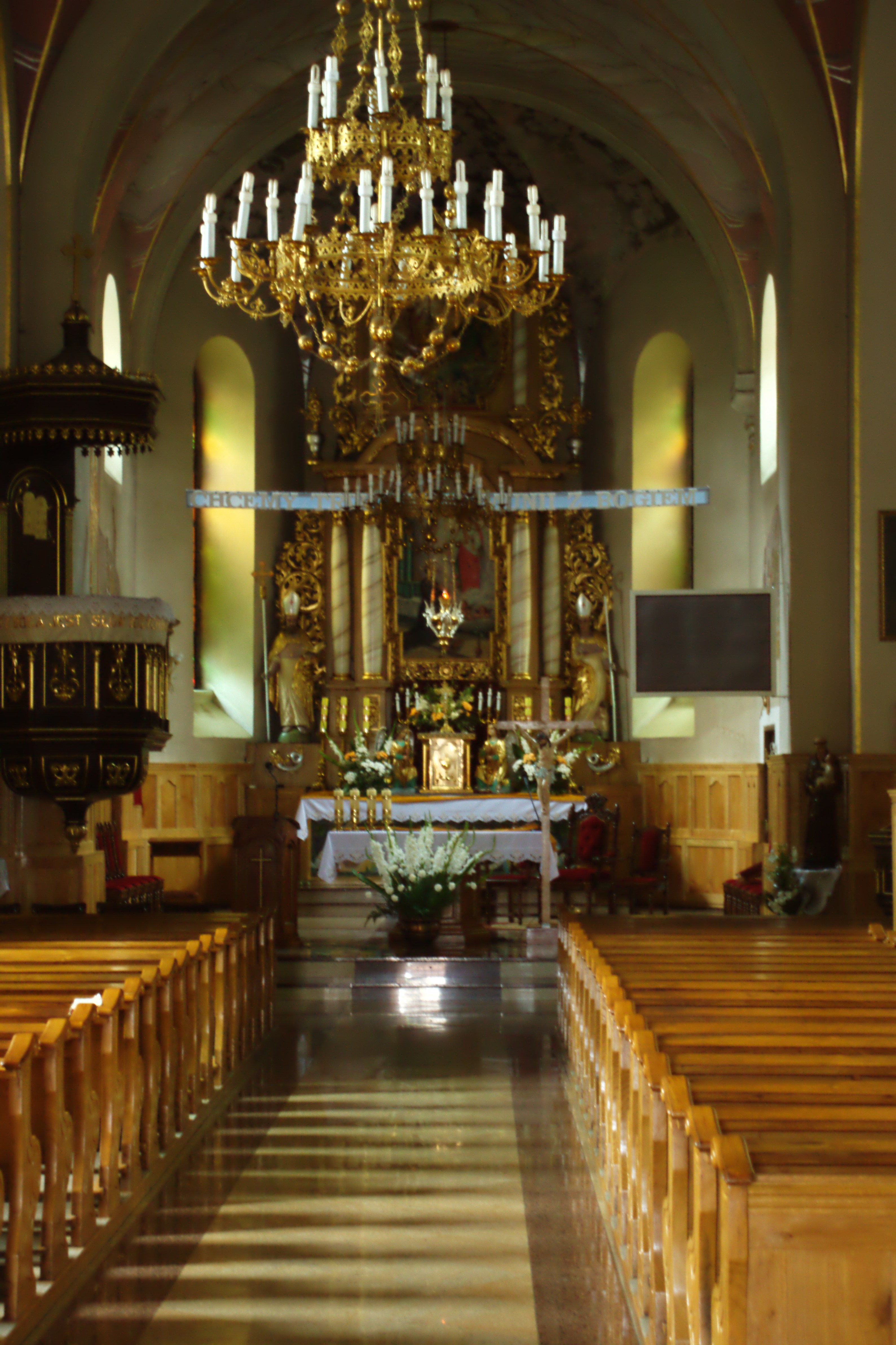 inside of Bircza church, Podkarpackie voivodeship, PL This photo of Subcarpathian Voivodeship was taken during Wikiekspedycja 2011 set up by Wikimedia Polska Association.You can see all photographs in category Wikiekspedycja 2011. The making of this document was supported by Wikimedia Polska.